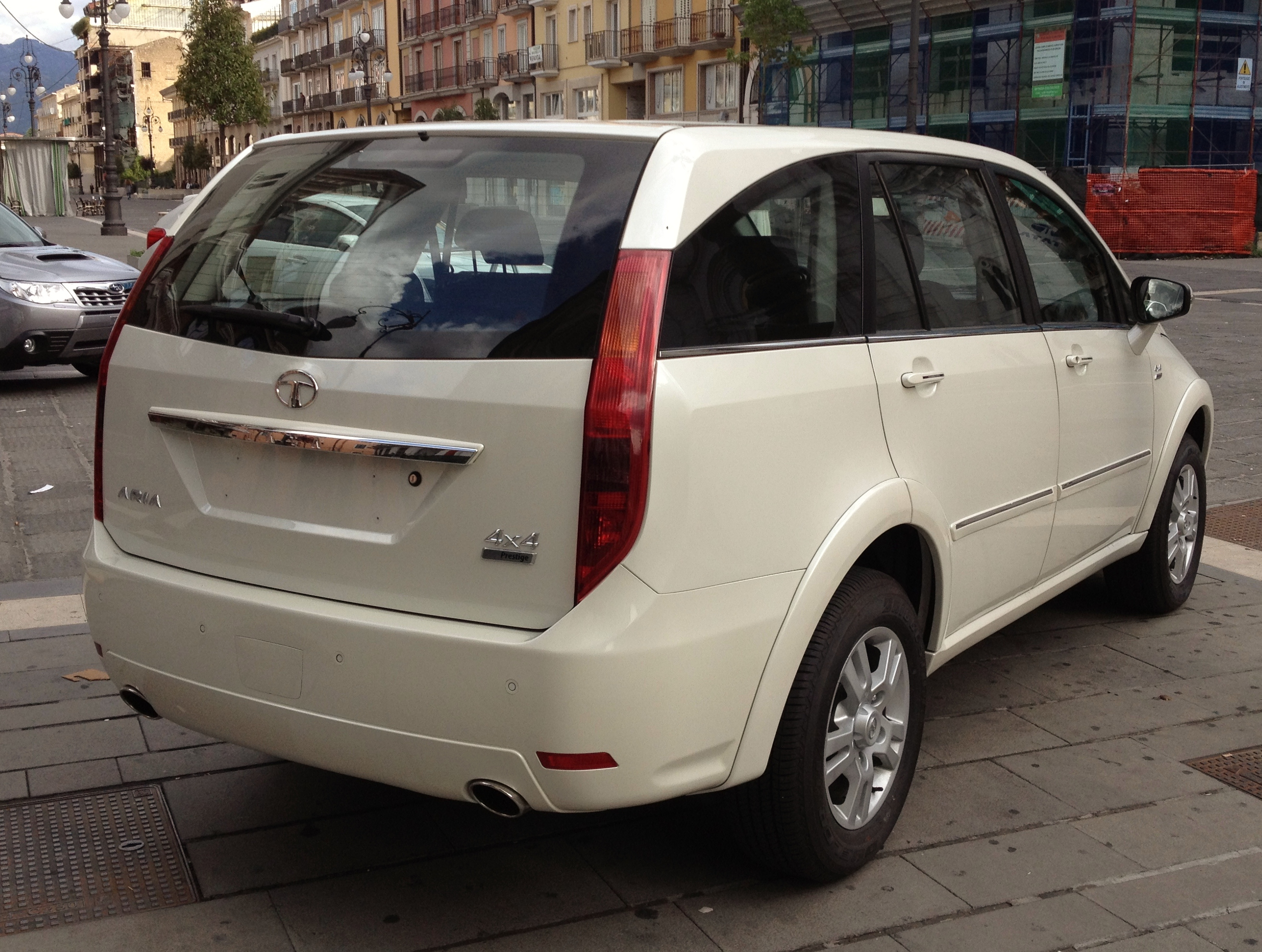 2012 Tata Aria 2.2 Dicor 4x4 rear